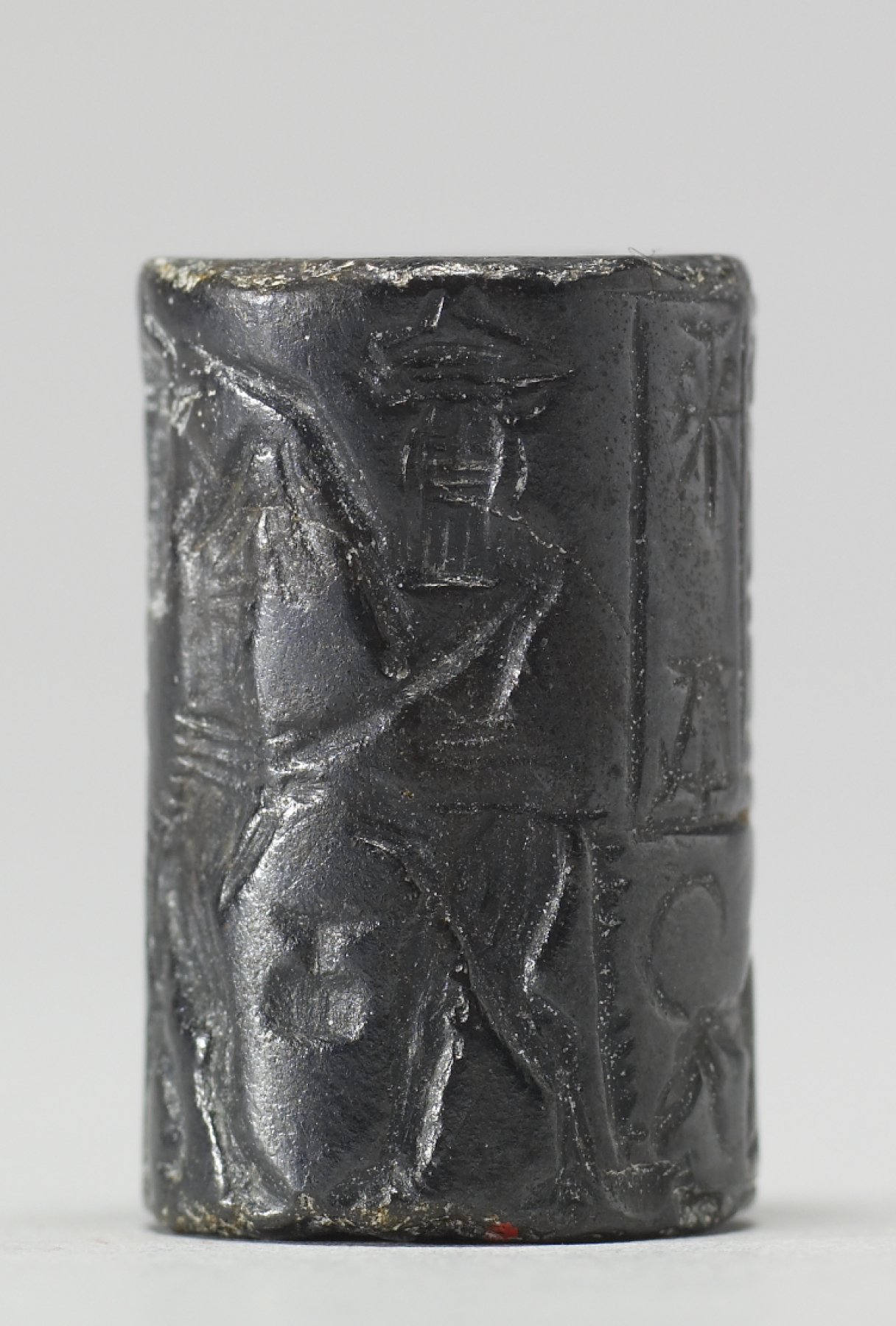 At the center of the depicted scene is a handled jug on a stand. Flanking this motif on both sides is an animal contest motif with a bearded hero/bull-man in horned headdress battling a bull-man. At the edge of the scene is a cuneiform inscription in two registers at the top, and beneath it is a small four legged animal with a long tail that curls upward.